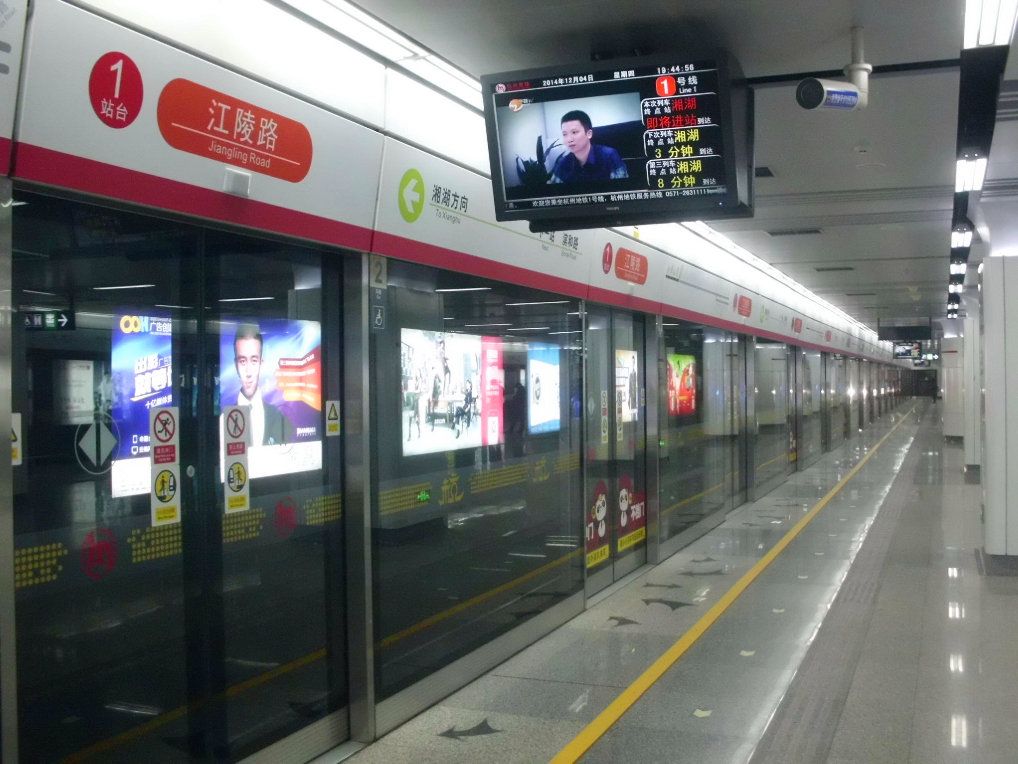 Jiangling Road Station